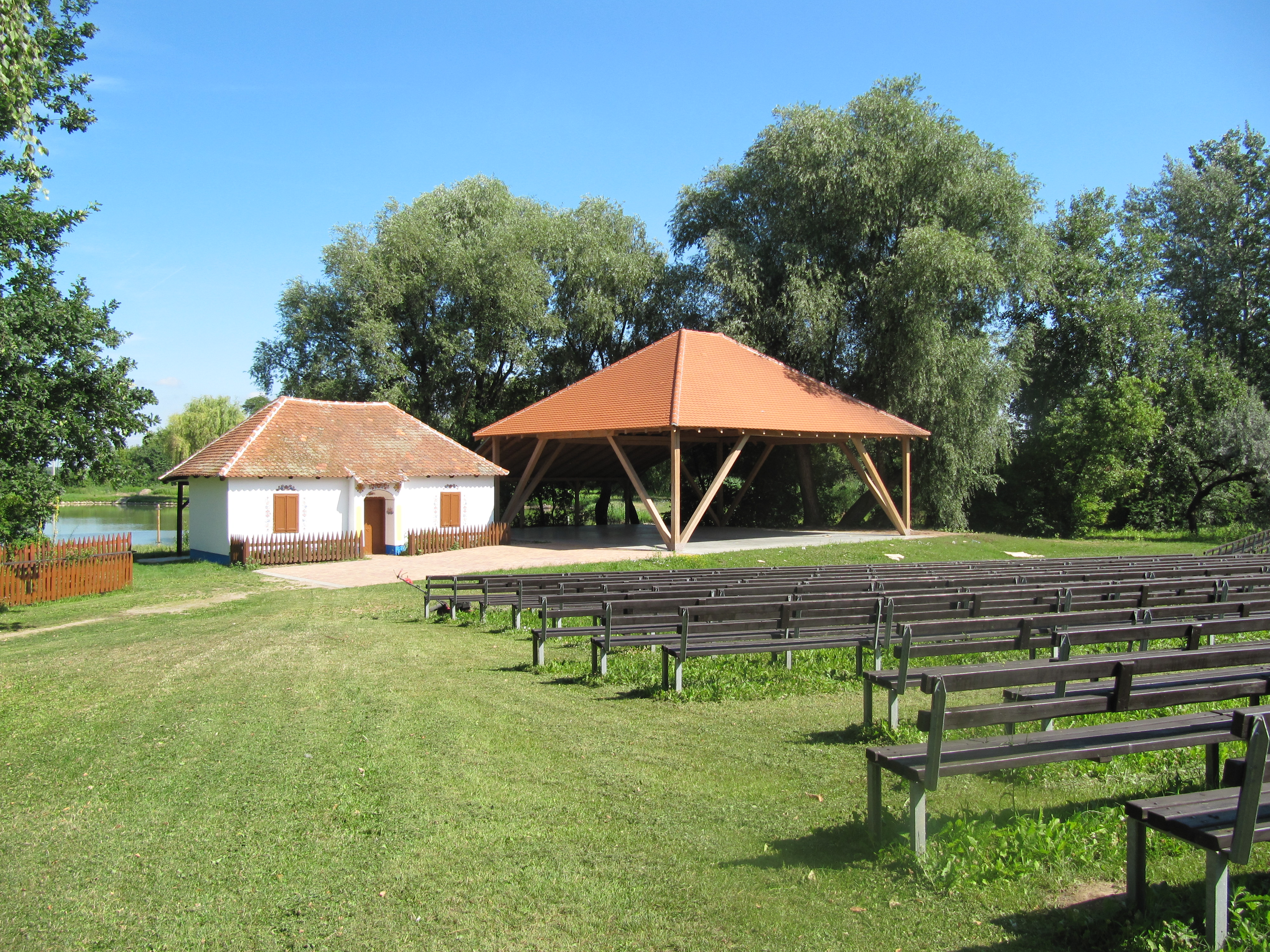 Tvrdonice in Břeclav District, Czech Republic. Amphitheater. This photograph was taken within the scope of the third year of the 'Czech Municipalities Photographs' grant.